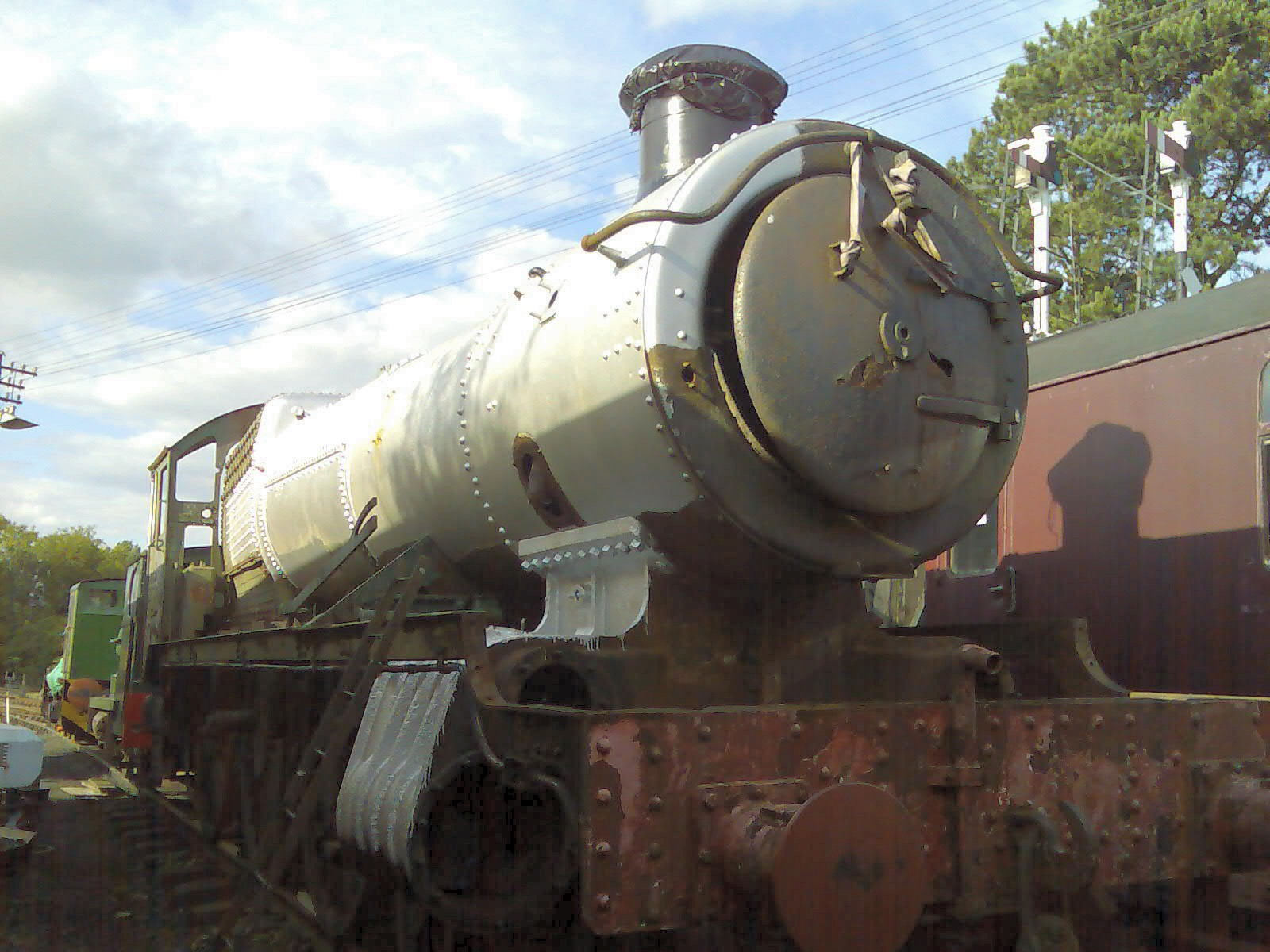 Steam locomotive GWR No. 5969 Bickmarsh Hall under restoration at Northampton & Lamport Railway